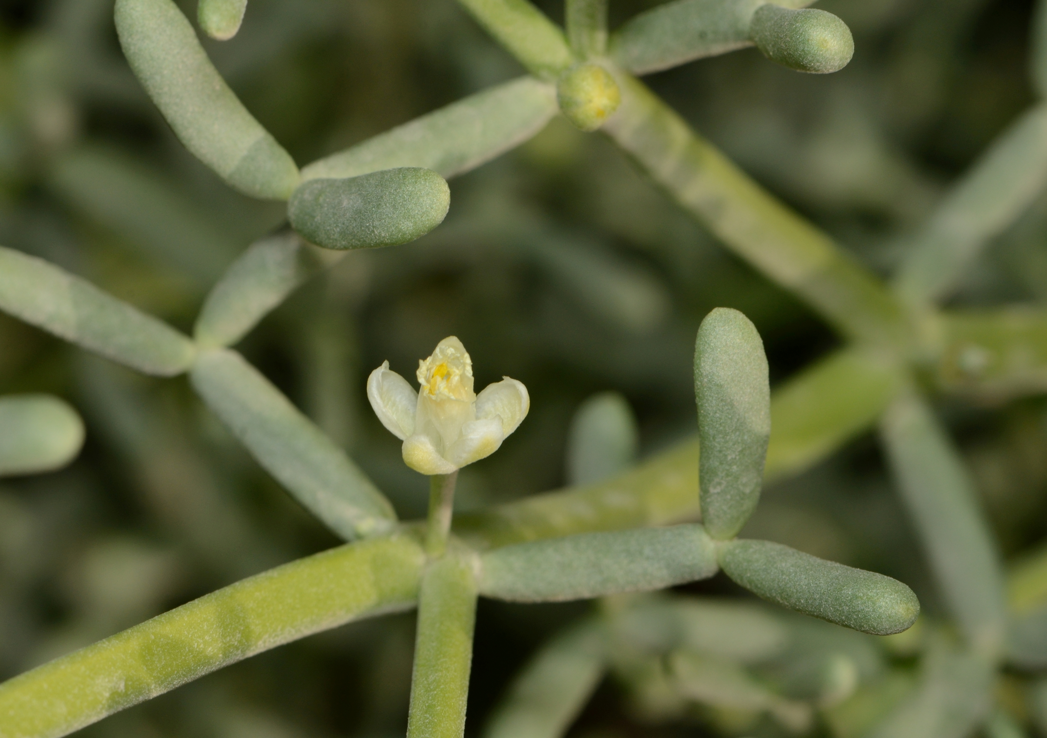 Zygophyllum coccineum L., Nahal Shelomo, Eilat Mountains, Israel, January 18, 2013.